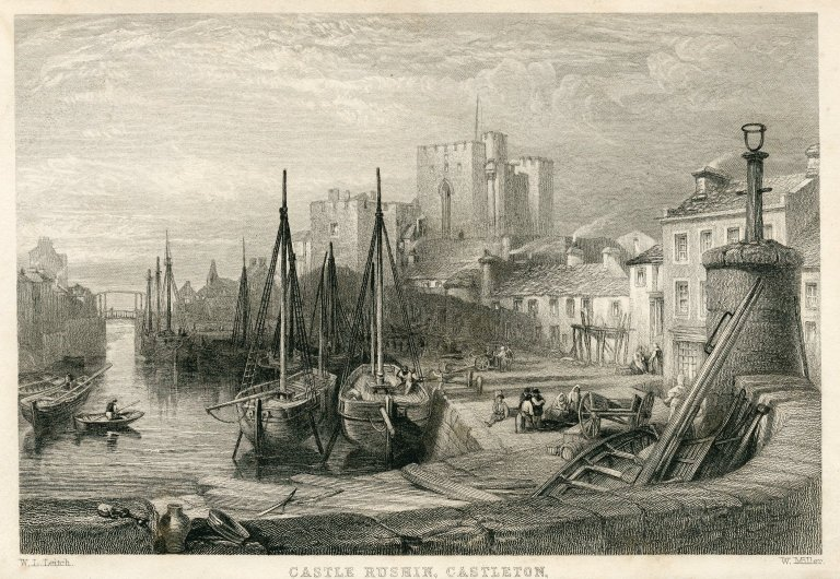 Depicts the harbour at Castleton, Isle of Man, with Castle Rushen in the background. At the beginning of Sir Walter Scott's Peveril of the Peak (1823), the hero Julian Peveril is staying as a guest of the Countess of Derby in Castle Rushen (or Rushin). The Castle was built around 1200 and was the residence of the last Norse King of Man (d. 1266). Scott did not personally visit the Isle of Man, but received information from his younger brother Thomas who served as an officer in the Manx Fencibles from 1808 to 1810. The original steel engraving was made for the Abbotsford Edition of the Waverley Novels (1842-1847). This image is available from the University of Edinburgh Image Collections This item is part of University of Edinburgh Image Collections, wal~1~1~68870~101012View the image in Wikimedia's IIIF-compliant Mirador viewer which enables high resolution zooming.View the image in its original context in the University of Edinburgh Image Collections Catalogue This file was uploaded as part of a GLAMWiki partnership with the University of Edinburgh. This tag does not indicate the copyright status of the attached work. A normal copyright tag is still required. See Commons:Licensing.